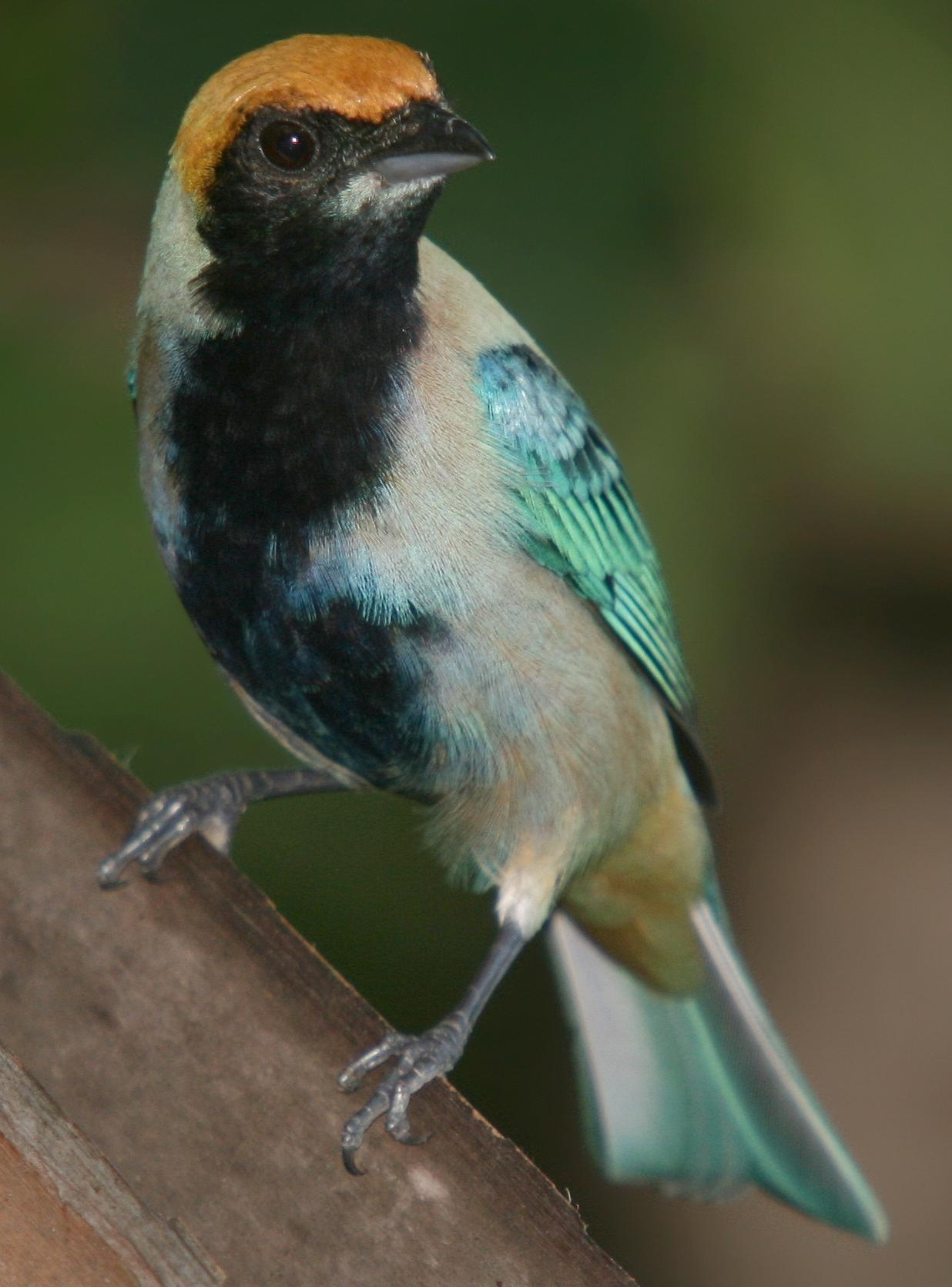 A male Burnished-buff Tanager (also known as the Rufous-crowned Tanager) in Goiás, Brazil.